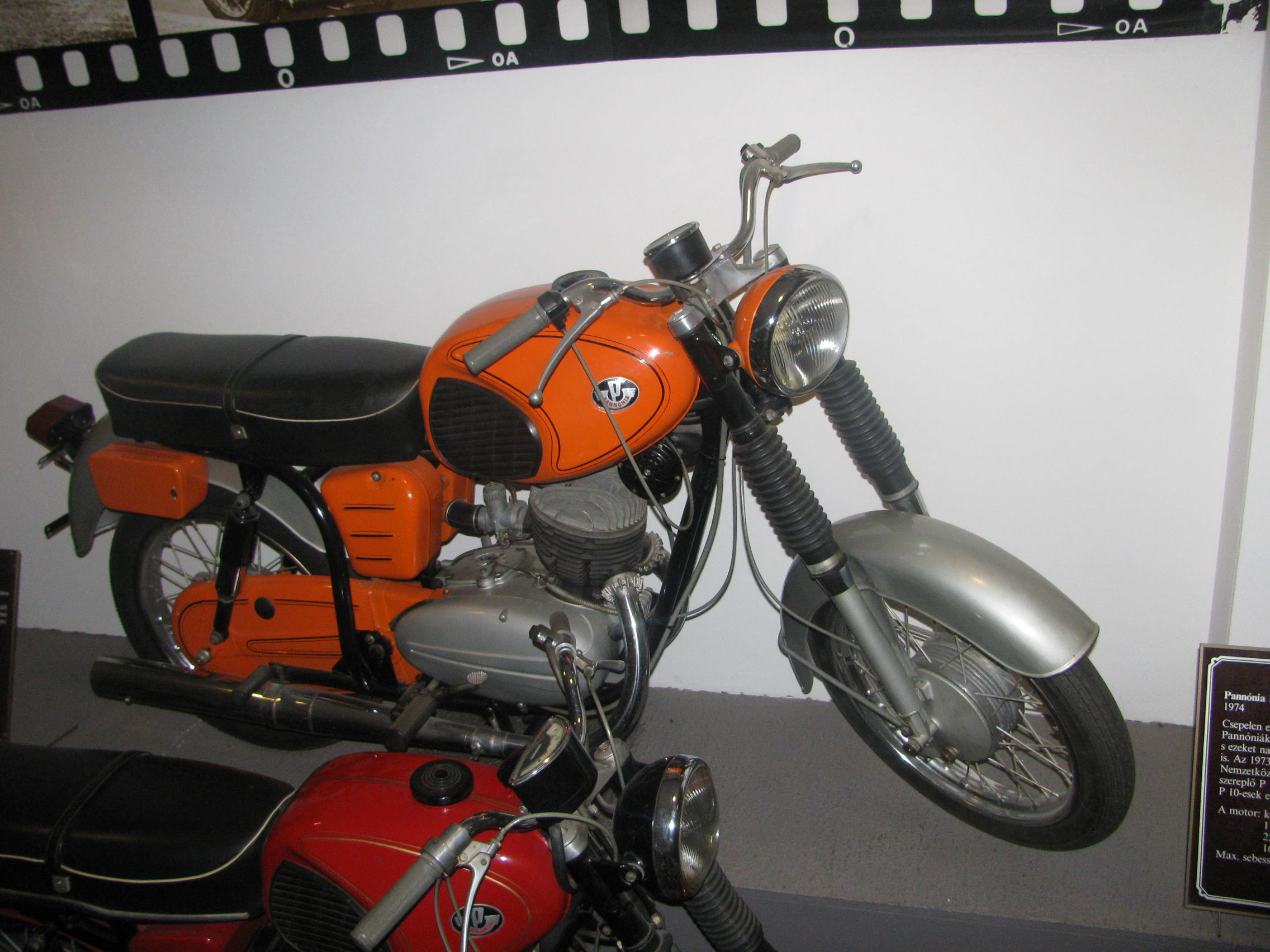 Pannónia P 12 motorcycle from 1974, made by Csepel. Powered by a two-stroke, 250 ccm single-cylinder engine of which maximum output is 11.8 kW (16 hp). The maximum speed is 110 km/h.